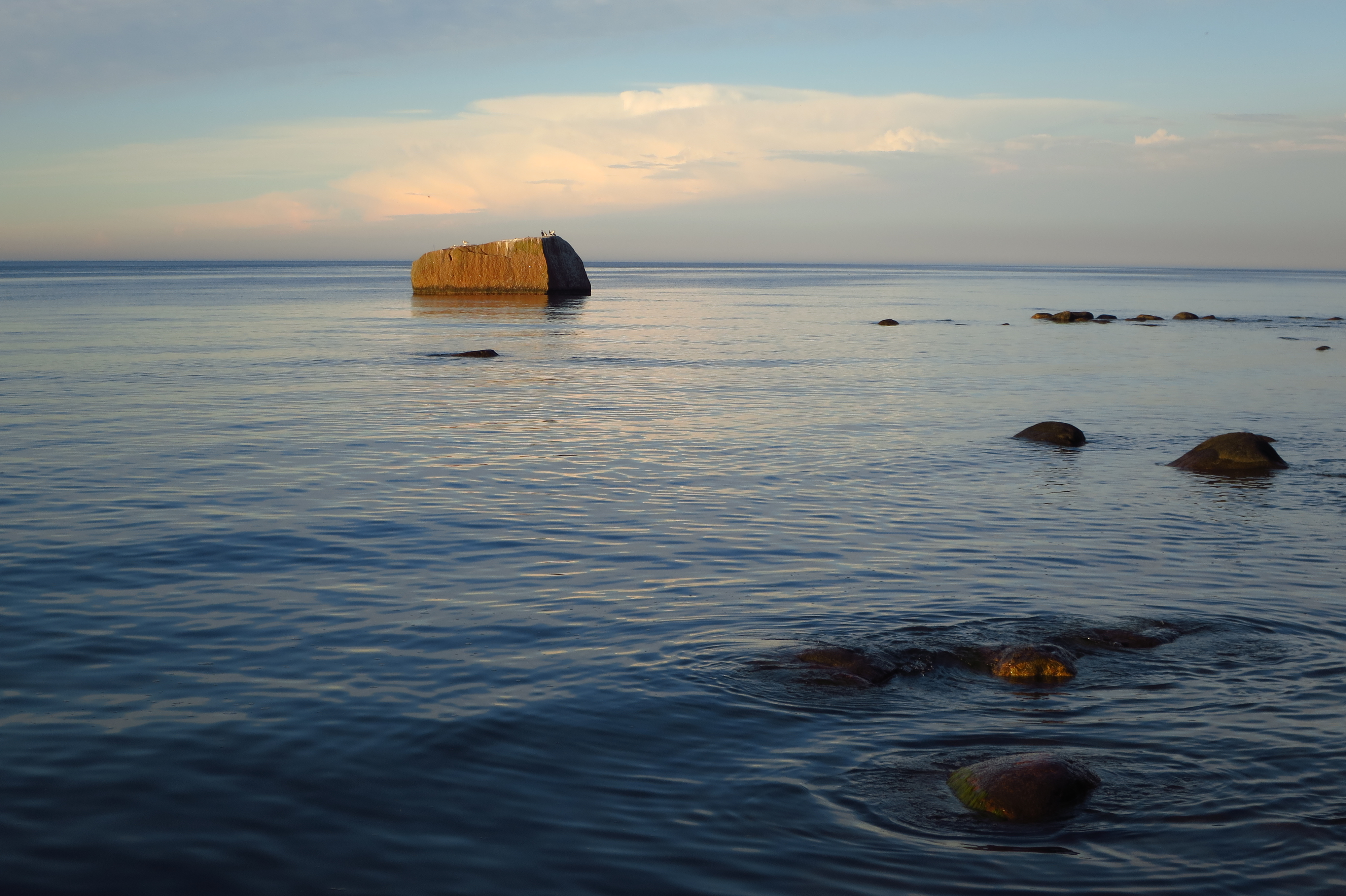 Painuva kivi Turbuneemel